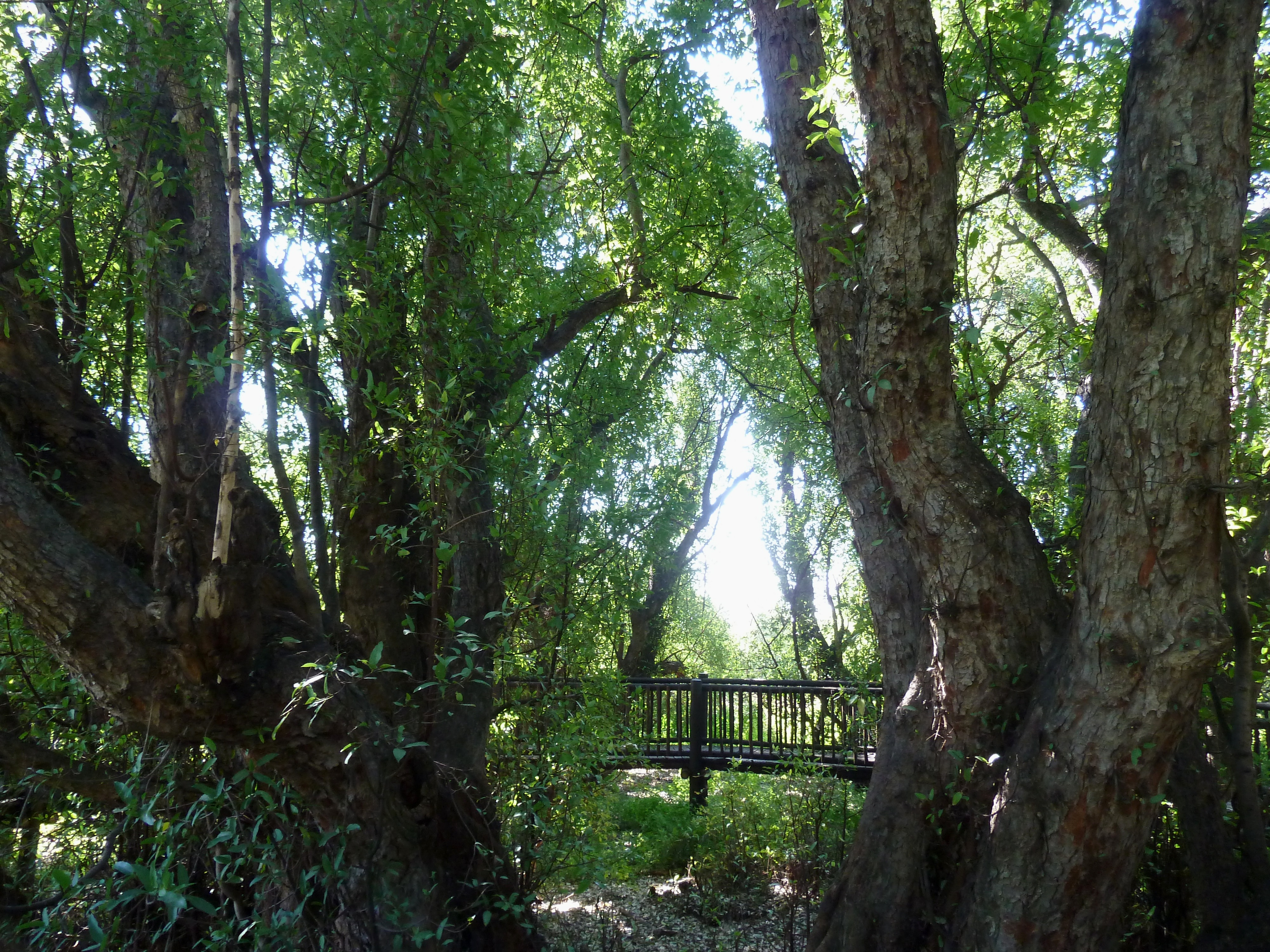 The Wonderboom grove in the Wonderboom Nature Reserve, Pretoria